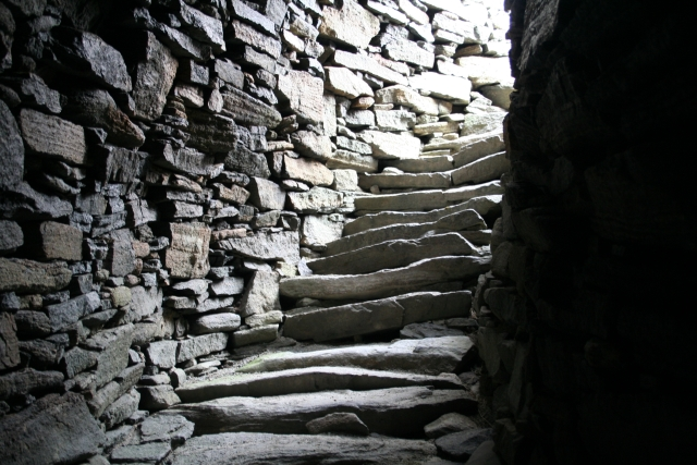 Steps Inside the Broch, Dun Charlabhaigh The Broch consists of two concentric walls which has steps between them to reach the upper floors.